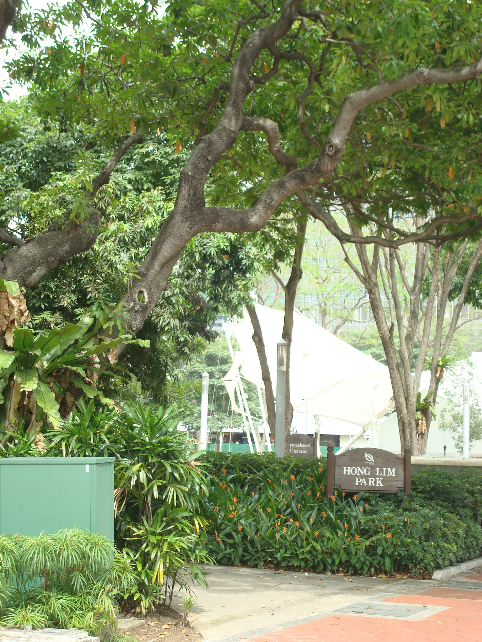 A sign at the entrance of Hong Lim Park, Singapore.